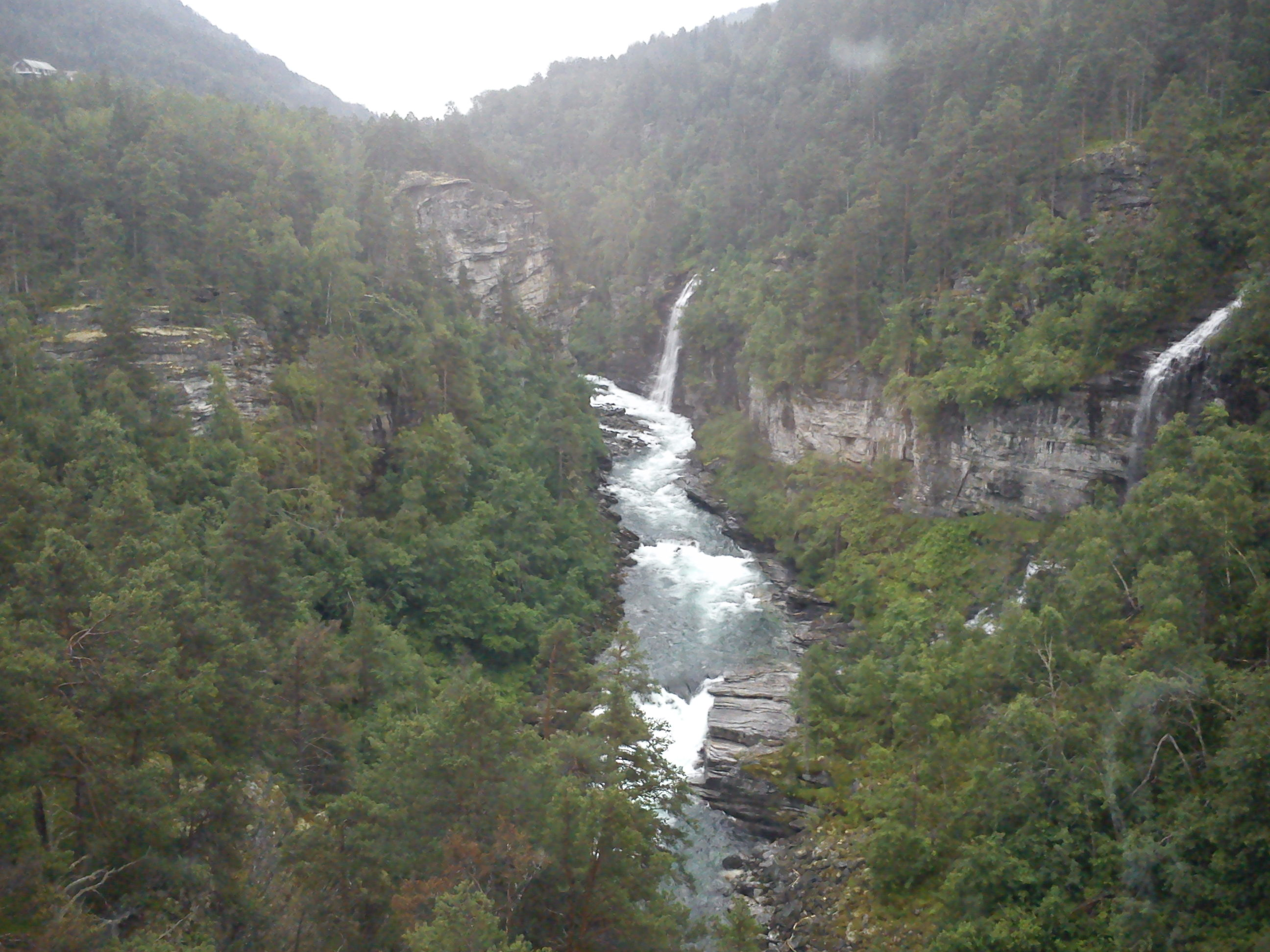 Rauma, Norway. Rauma River near Slettafossen (waterfall), at Kylling Bridge, near Verma village.